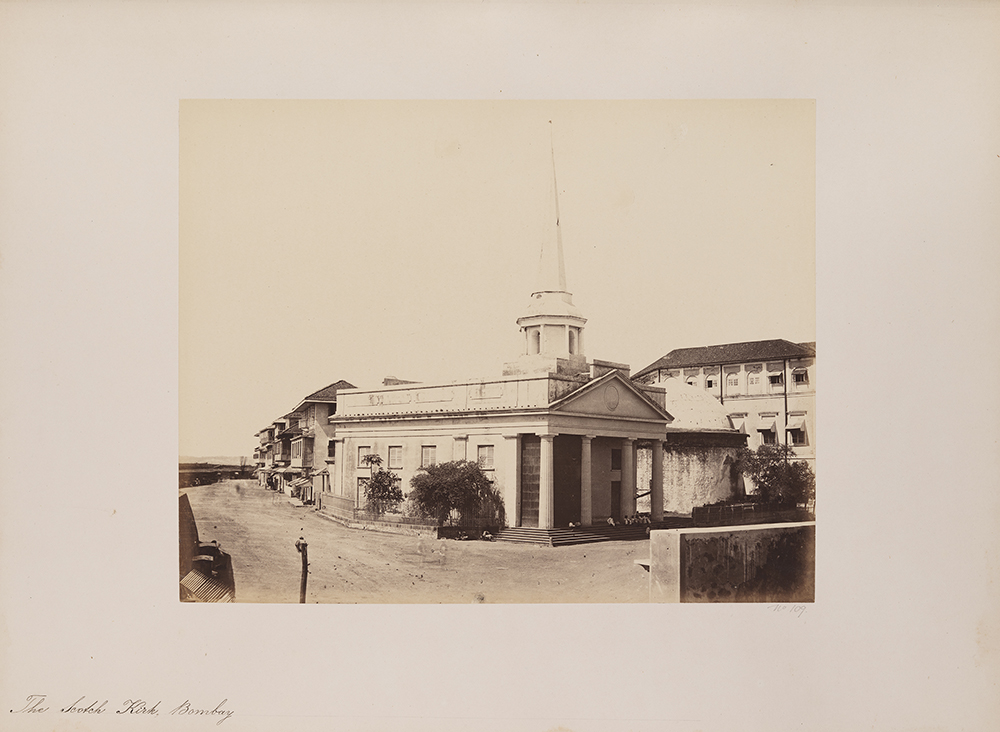 Title: The Scotch Kirk, Bombay Alternative Title: [The Church of Saints Andrew and Columba, Mumbai] Creator: Johnson, William Date: ca. 1855-1862 Series: Photographs of Western India. Volume II. Scenery, Public Buildings, &c. Part of: Photographs of Western India Place: Mumbai, Maharashtra, India Physical Description: 1 photographic print: part of 1 volume (100 albumen prints); 20 x 26 cm on 35 x 42 cm mount File: vault_ag2002_1407x_2_109_scotch_opt.jpg Rights: Please cite Southern Methodist University, Central University Libraries, DeGolyer Library when using this image file. A high-quality version of this file may be obtained for a fee by contacting . For more information and to view the image in high resolution, see: View Europe, India, and Asia: Photographs, Manuscripts, and Imprints